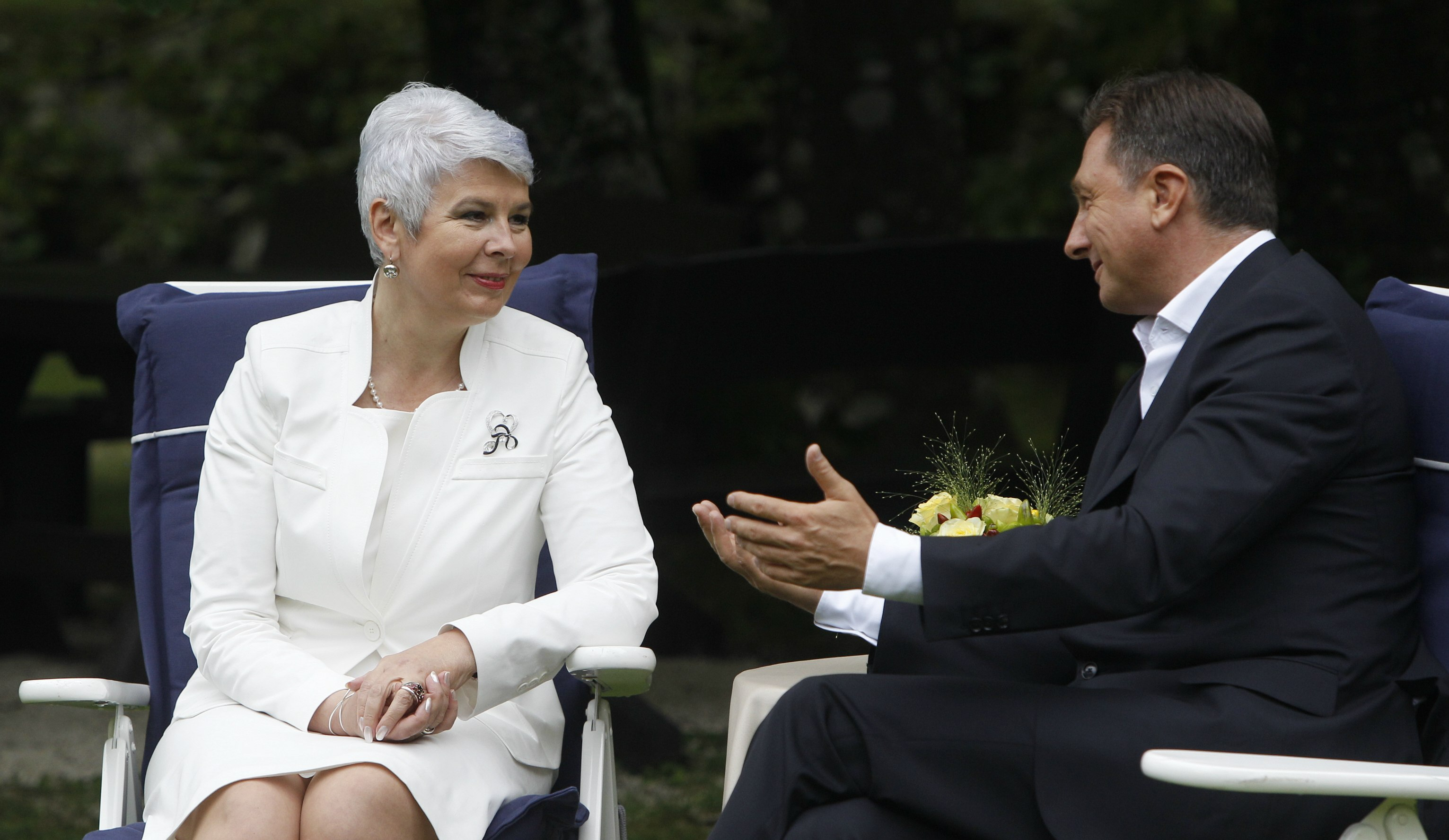 Borut Pahor and Jadranka Kosor in 2010